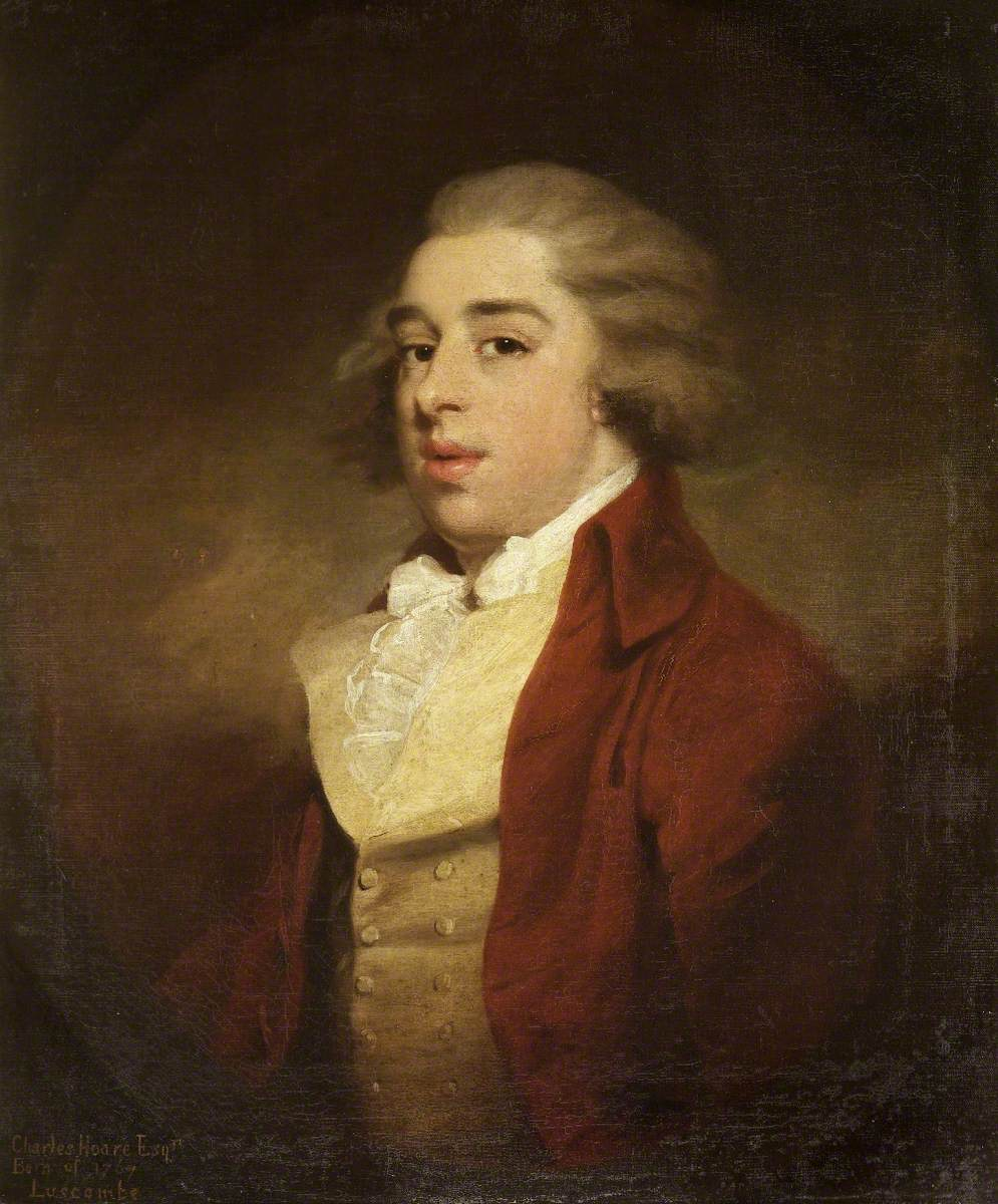 Portrait of Charles Hoare (1767–1851), English banker.